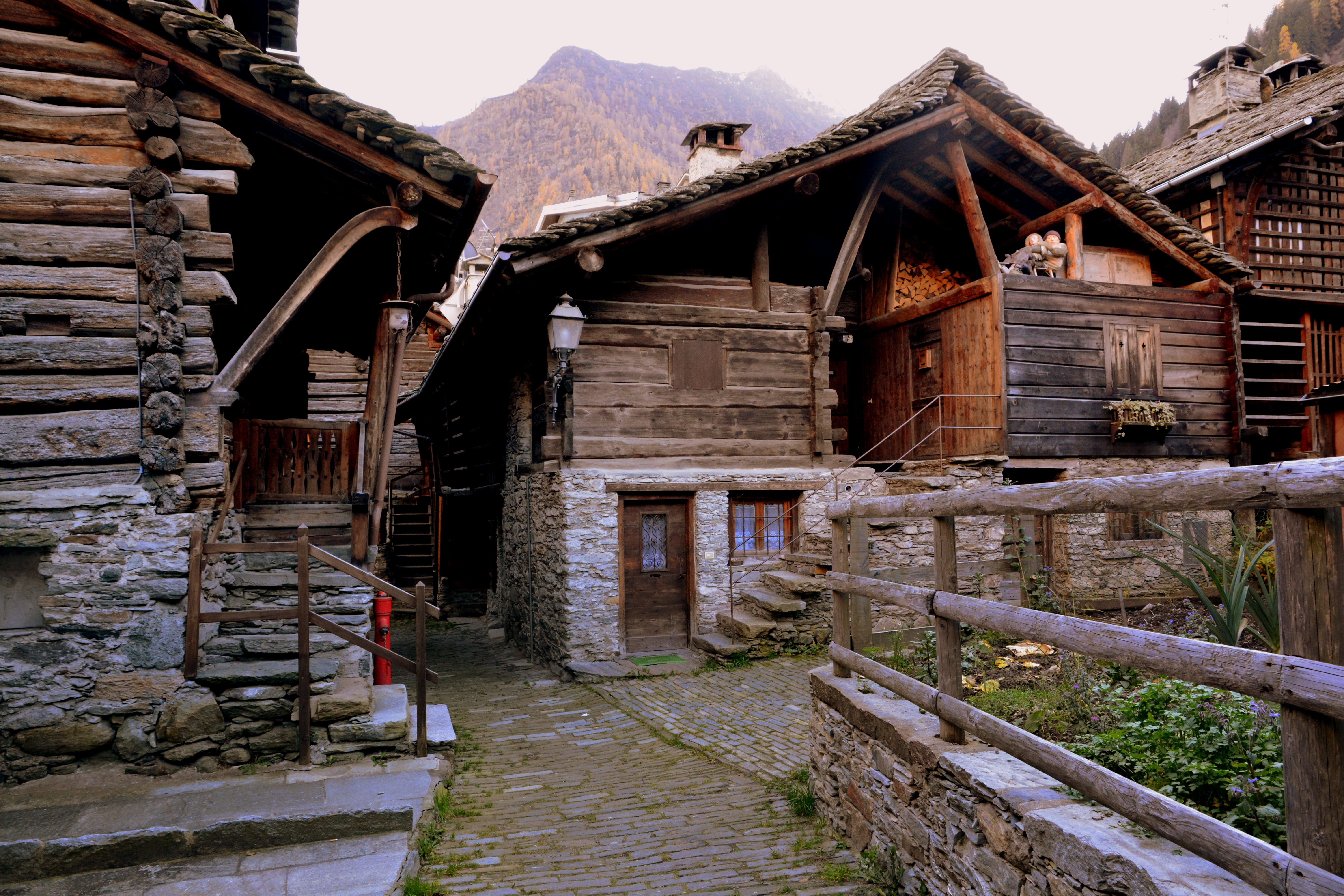 Alagna Valsesia, Dorf 17th/18th century